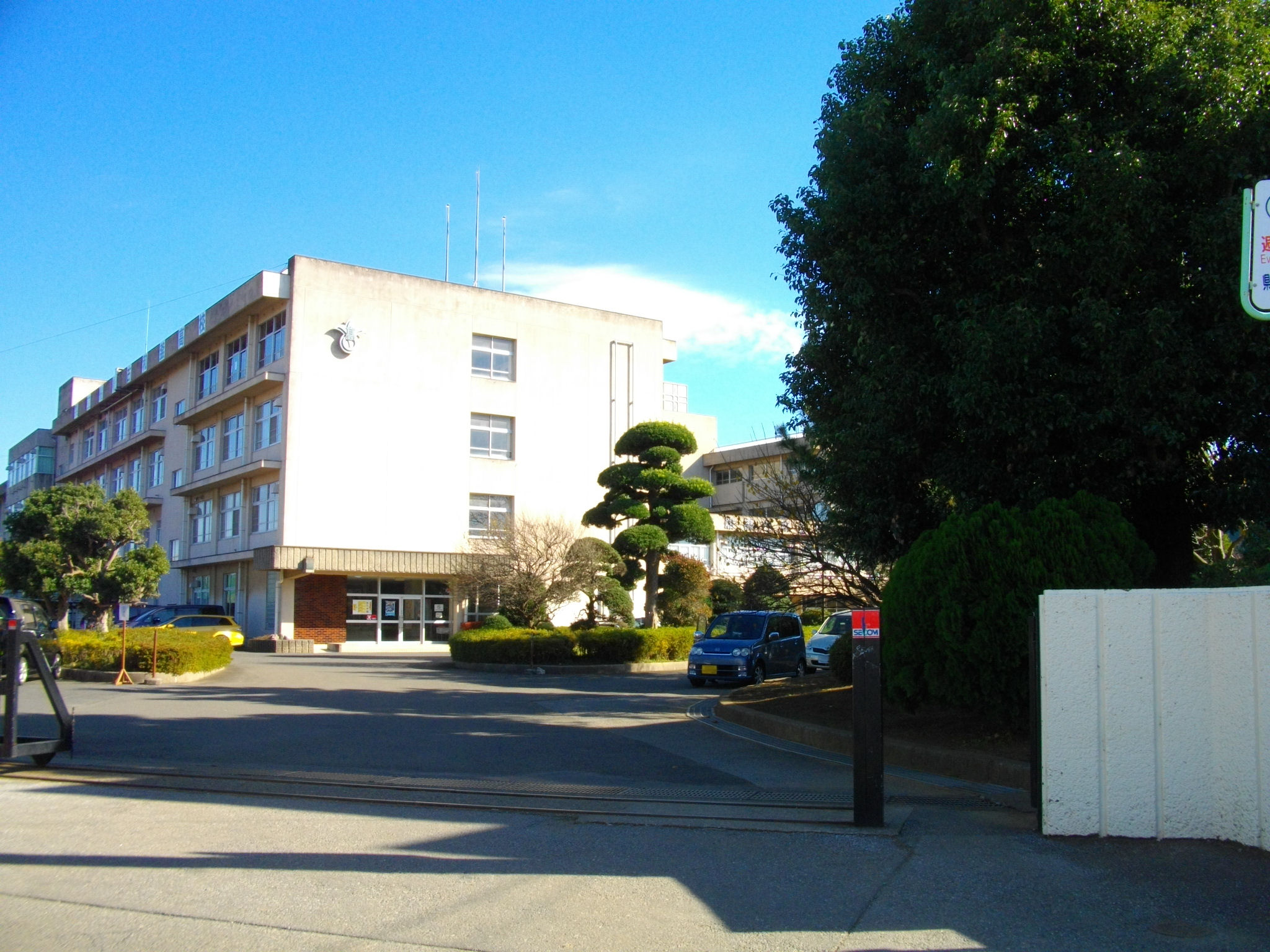 Funabashi-Kowagama High School